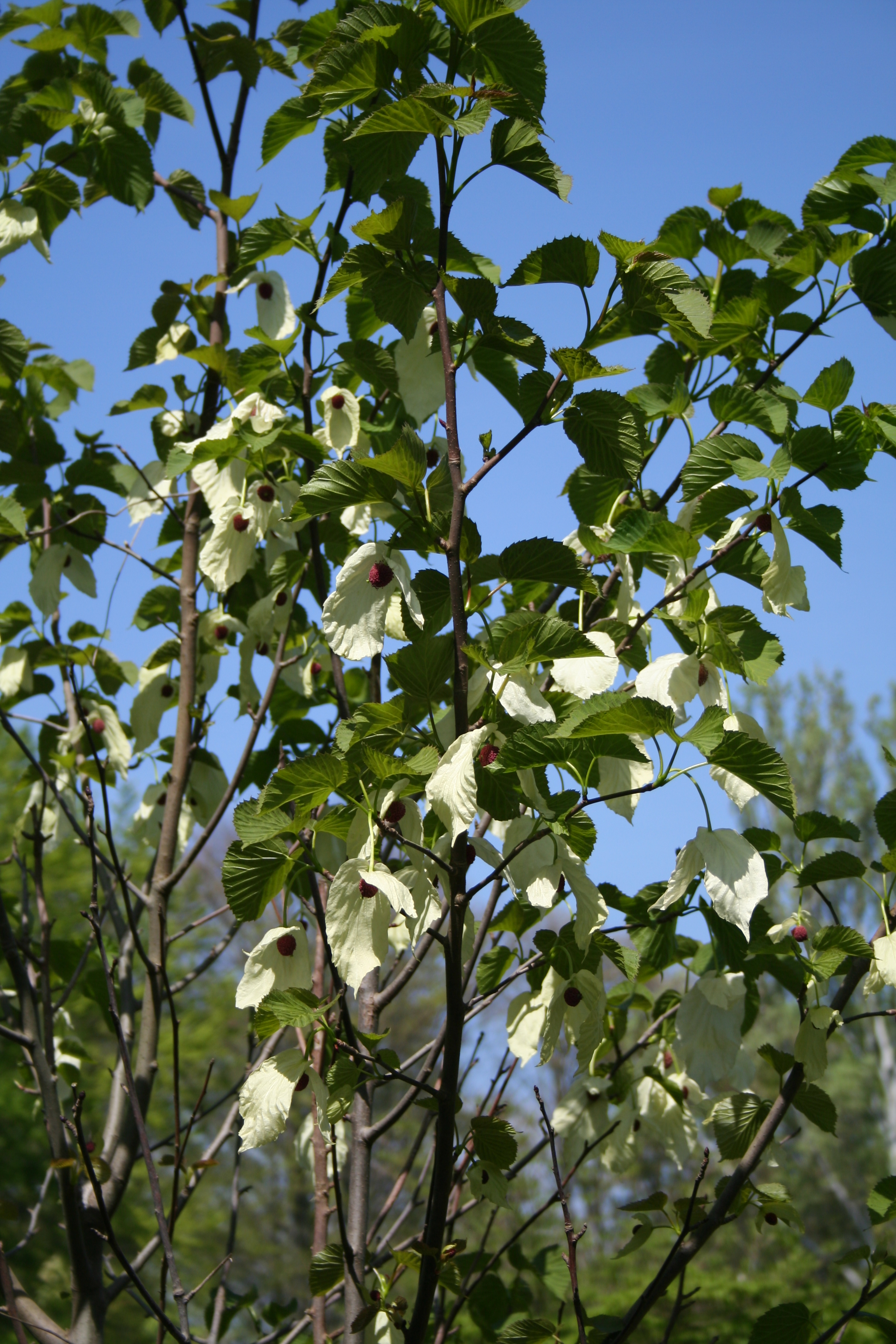 Davidia involucrata, Bot. Garden of the University of Frankfurt